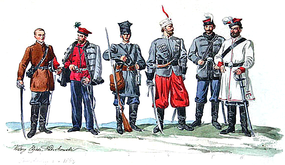 Polish insurgents from 1863 1